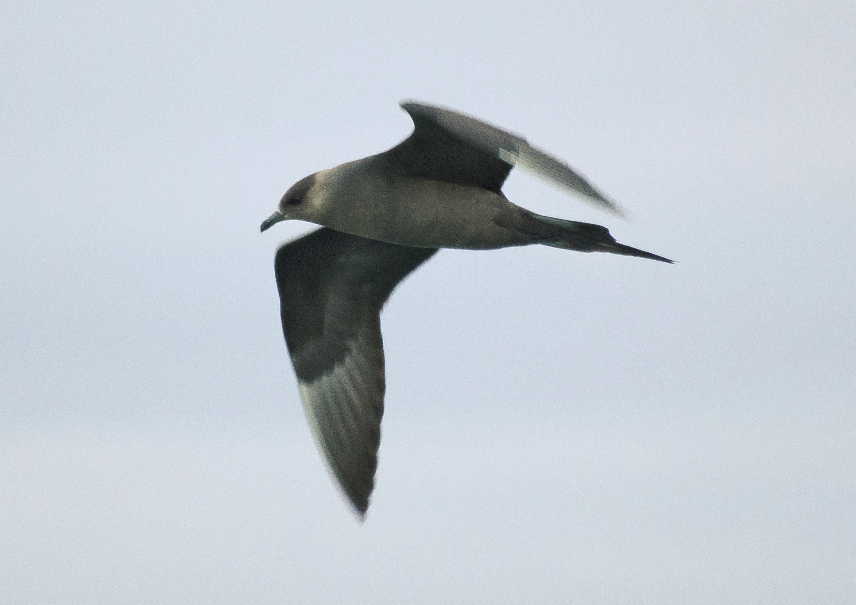 Arctic Skua Stercorarius parasiticus, dark colour morph in breeding plumage, Jökulsárlón, Iceland. Thanks to the members of Wikipedia:RBIO/B for the identification.